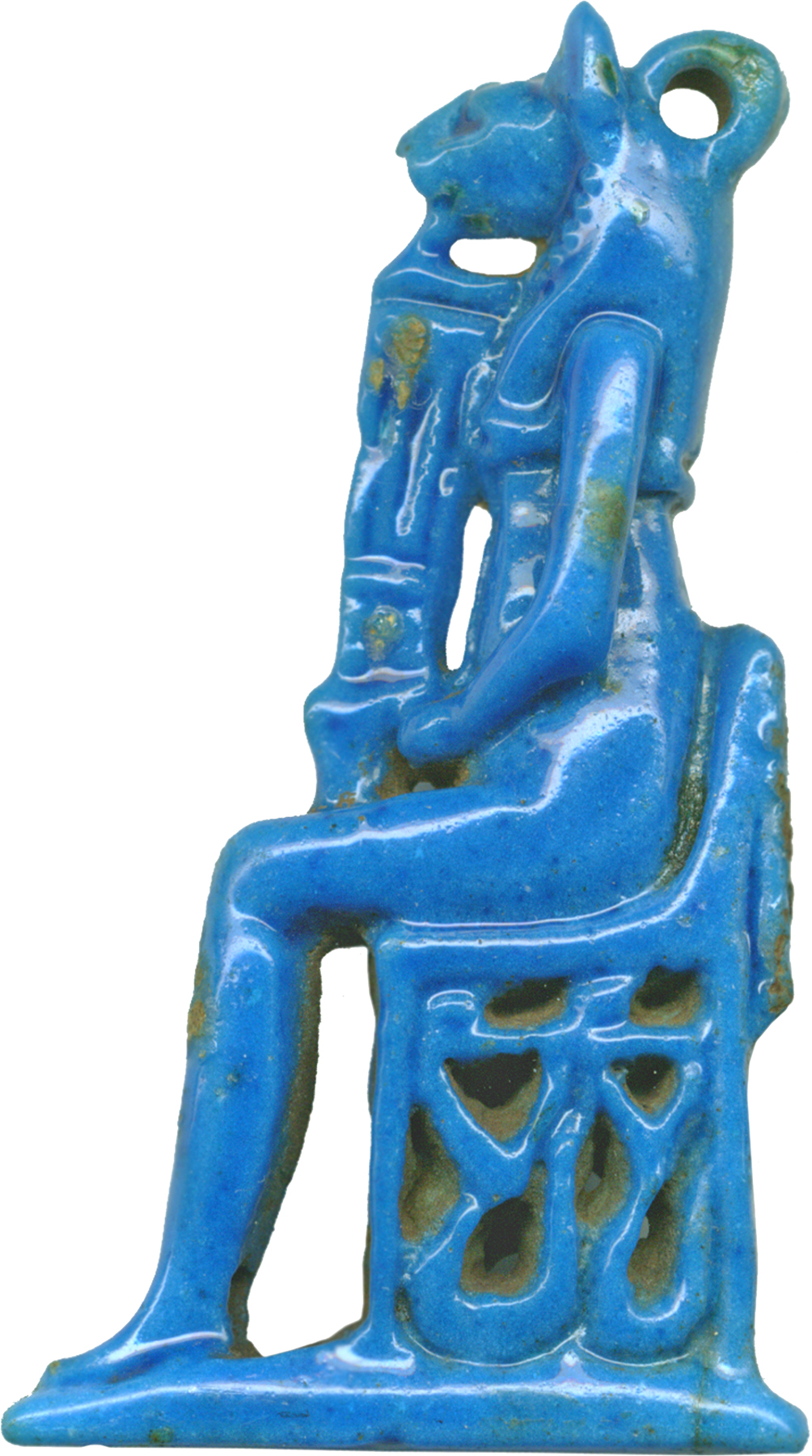 The lion-headed cat-goddess Bastet, daughter of the sun god, holds a "sistrum"- a rattle used in rituals.